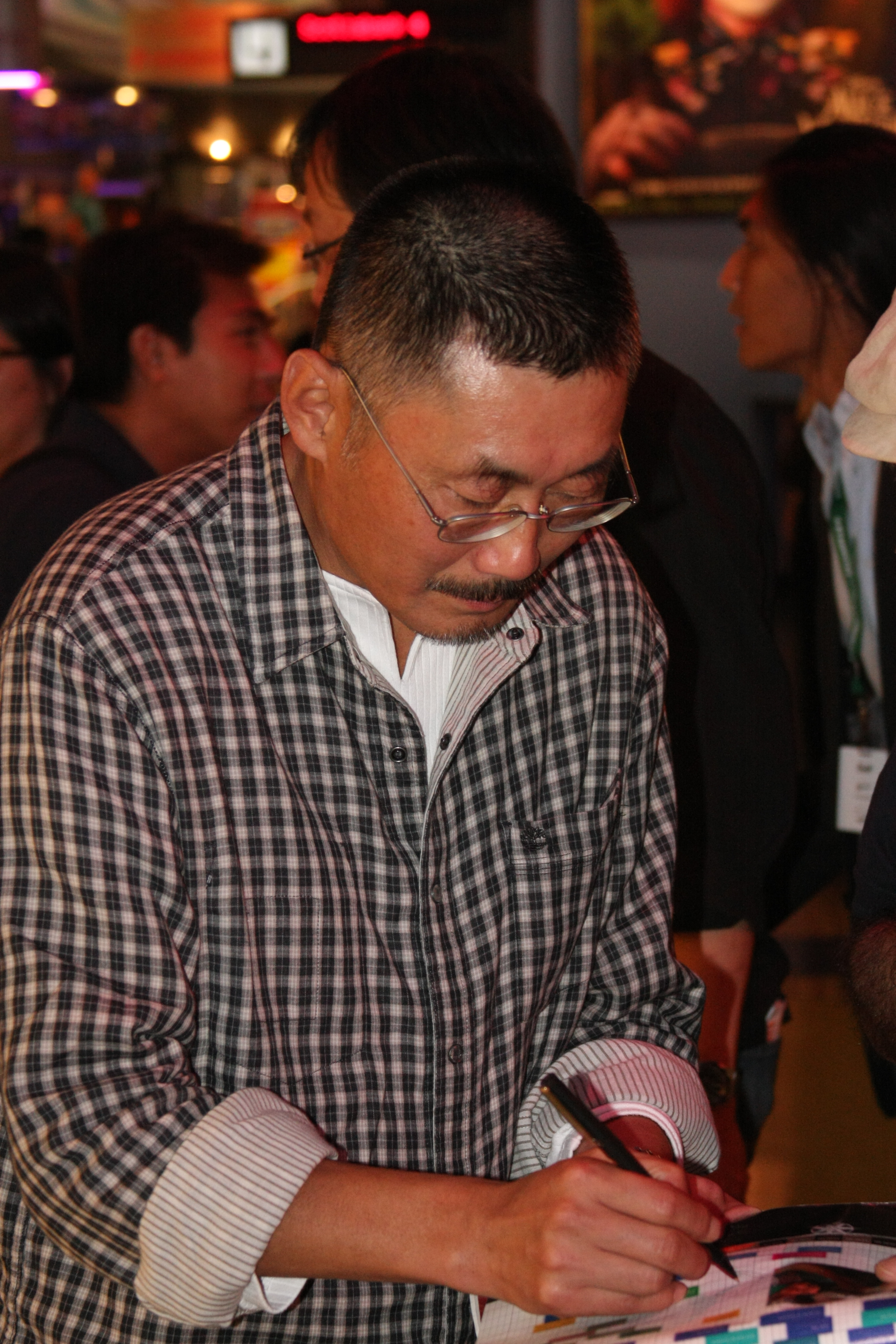 Director He Ping was signing an autograph for another film-goer when I ran into him in the cinema hallway. I was lucky I took the chance to take a couple of snapshots, as he left Toronto soon after, before the screening of Wheat which I attended on the last day of the festival.